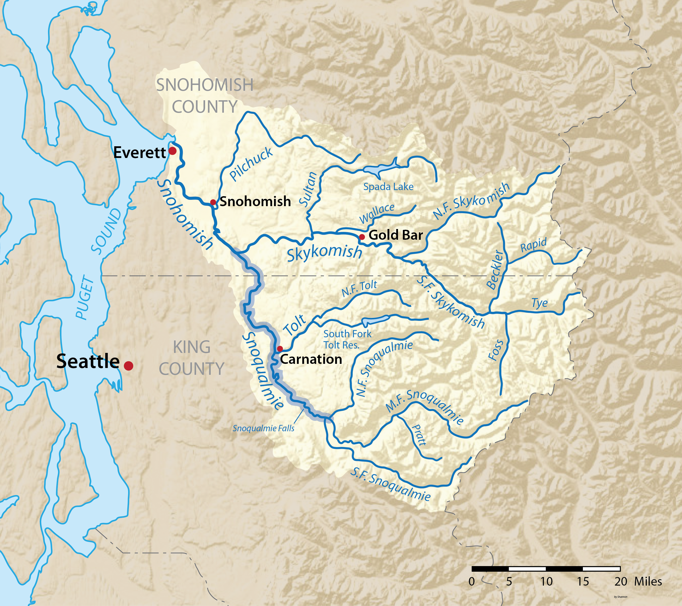 Map of the Snohomish River watershed in Washington, USA with the Snoqualmie River highlighted. Made using USGS National Map data. Replacement for File:Snoqualmierivermap.jpg.